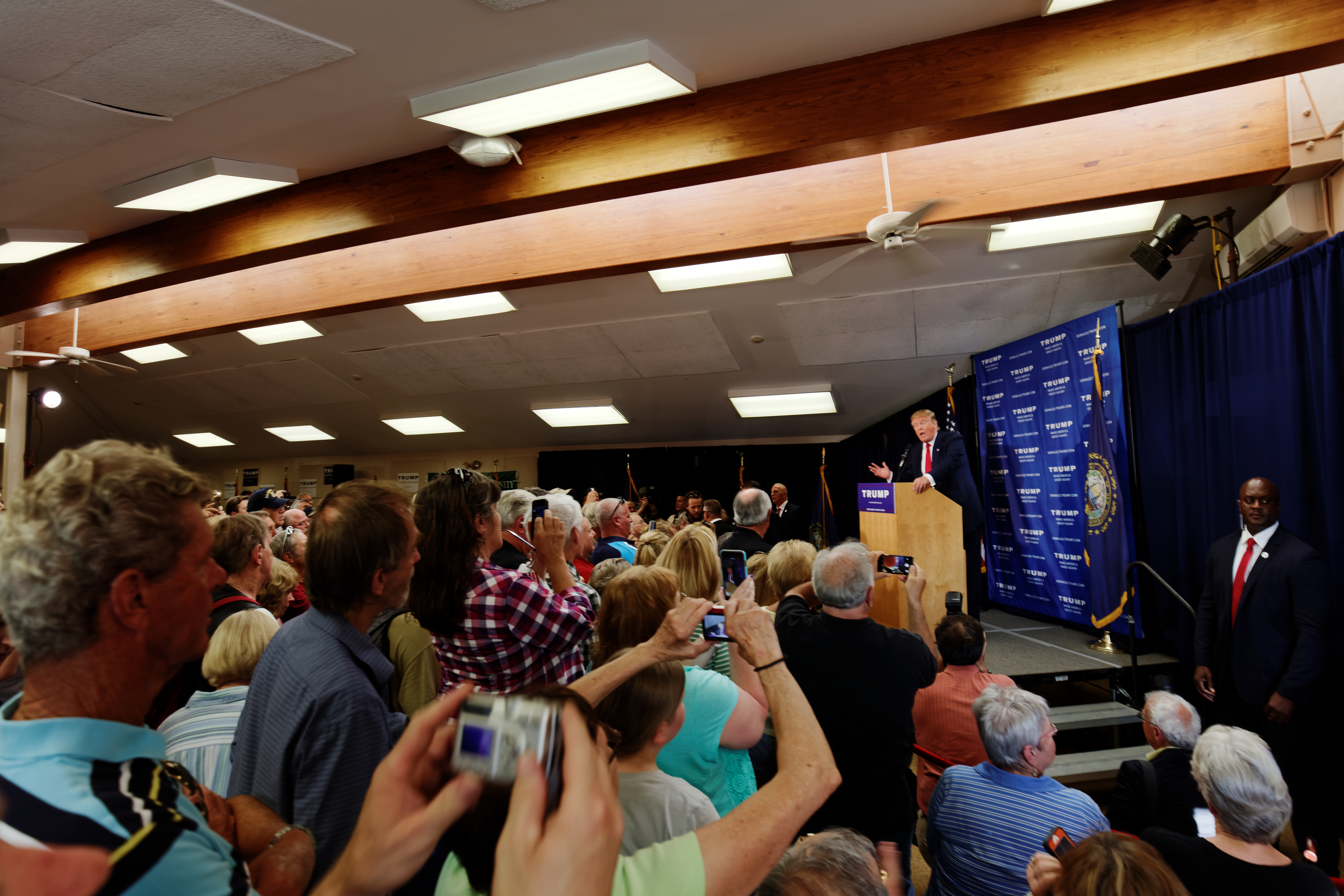 Donald Trump Laconia Rally, Laconia, NH by Michael Vadon July 16 2015 WHEN Thursday, July 16, 2015 from 6:30 PM to 7:30 PM (EDT) WHERE Weirs Community Center - 25 Lucerne Avenue Laconia, NH 03246 Donald John Trump, Sr. (born June 14, 1946) is an American business magnate, investor, television personality, and author. Currently running for the office of President of the United States, he is the chairman and president of The Trump Organization and the founder of Trump Entertainment Resorts. Trump's lifestyle and outspoken manner, as well as his best-selling books and media appearances, have made him an American celebrity. He hosted The Apprentice, a US TV show. Trump is a son of Fred Trump, a New York City real estate developer. Donald Trump worked for his father's firm, Elizabeth Trump & Son, while attending the Wharton School of the University of Pennsylvania, and, in 1968, officially joined the company. He was given control of the company in 1971, renaming it The Trump Organization. Trump remains a major figure in the real estate industry in the United States and a media celebrity. In 2010, Trump expressed an interest in becoming a candidate for President of the United States in the 2012 election, but in May 2011, he announced he would not run. He was a featured speaker at the 2013 Conservative Political Action Conference (CPAC), and, in the same year, began researching a possible presidential bid in the 2016 election. On June 16, 2015 at Trump Tower in Manhattan, Trump formally announced his candidacy for President of the United States in the 2016 election, seeking the nomination of the Republican Party.